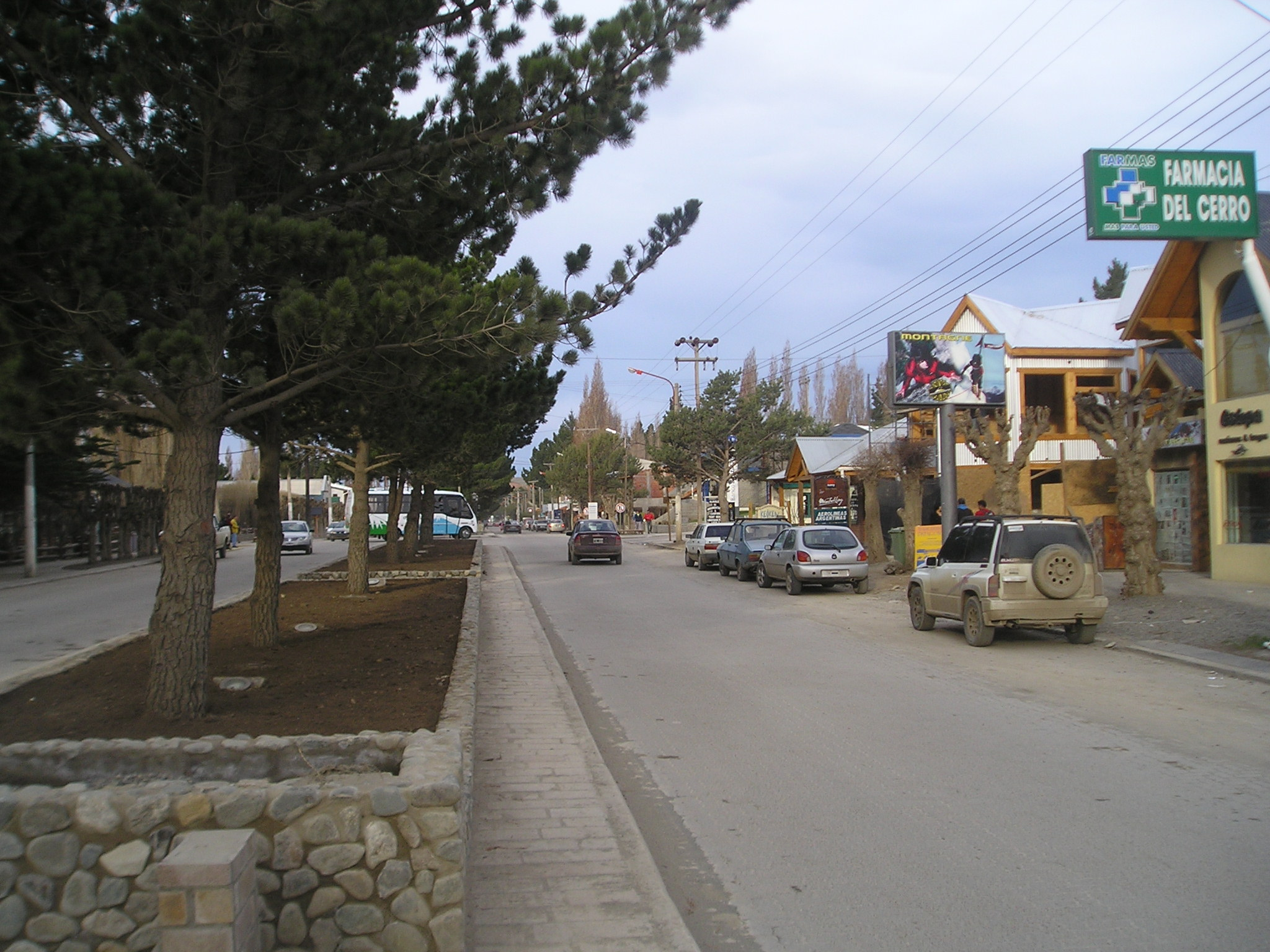 El Calafate, Argentina - Avenida del Libertador, the town's main street